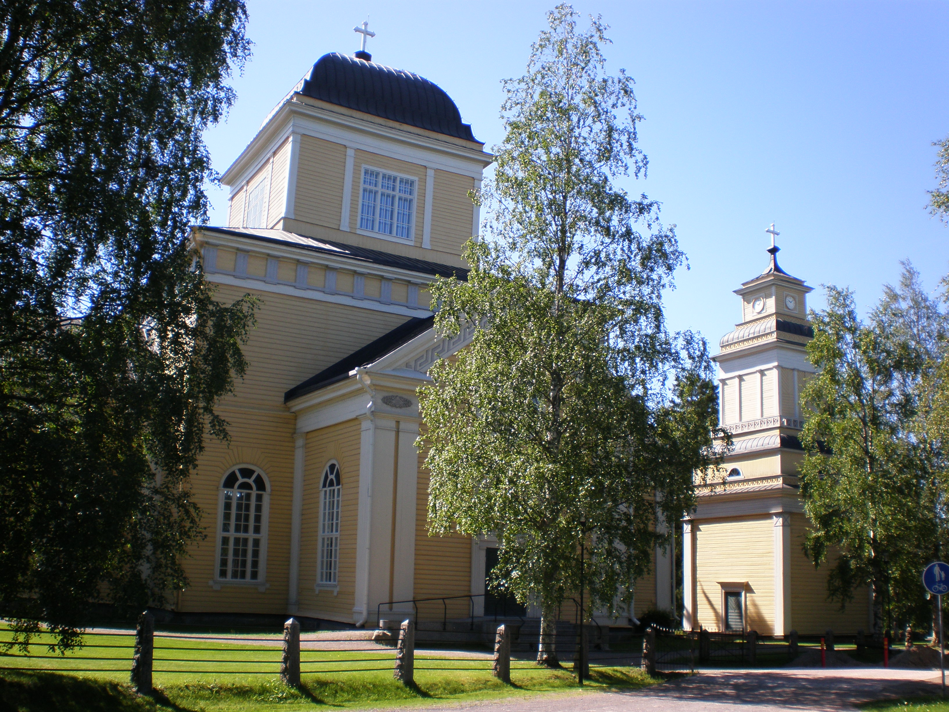 Karstula Church and belfry in Karstula, Finland. The church was designed by Anders Fredrik Granstedt, and it was built in 1851–1853. The belfry was built in 1815.